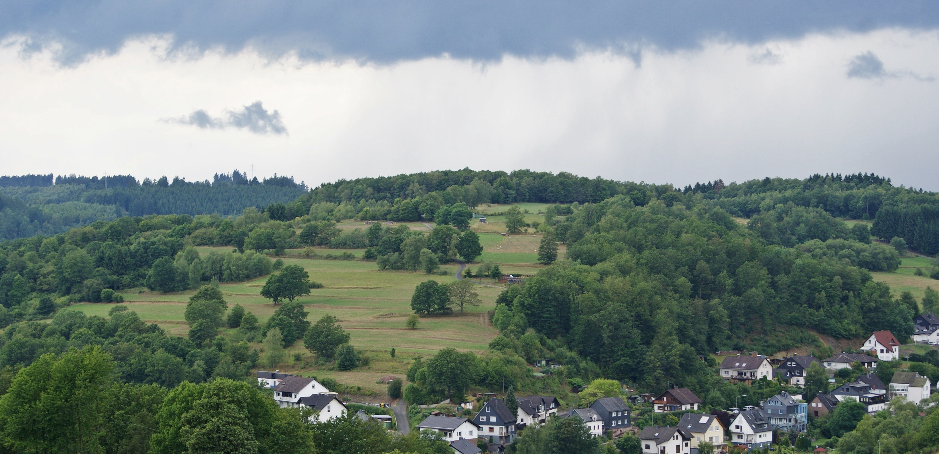 Nature reserve Süselberg; taken in Niederndorf in Freudenberg, Germany.